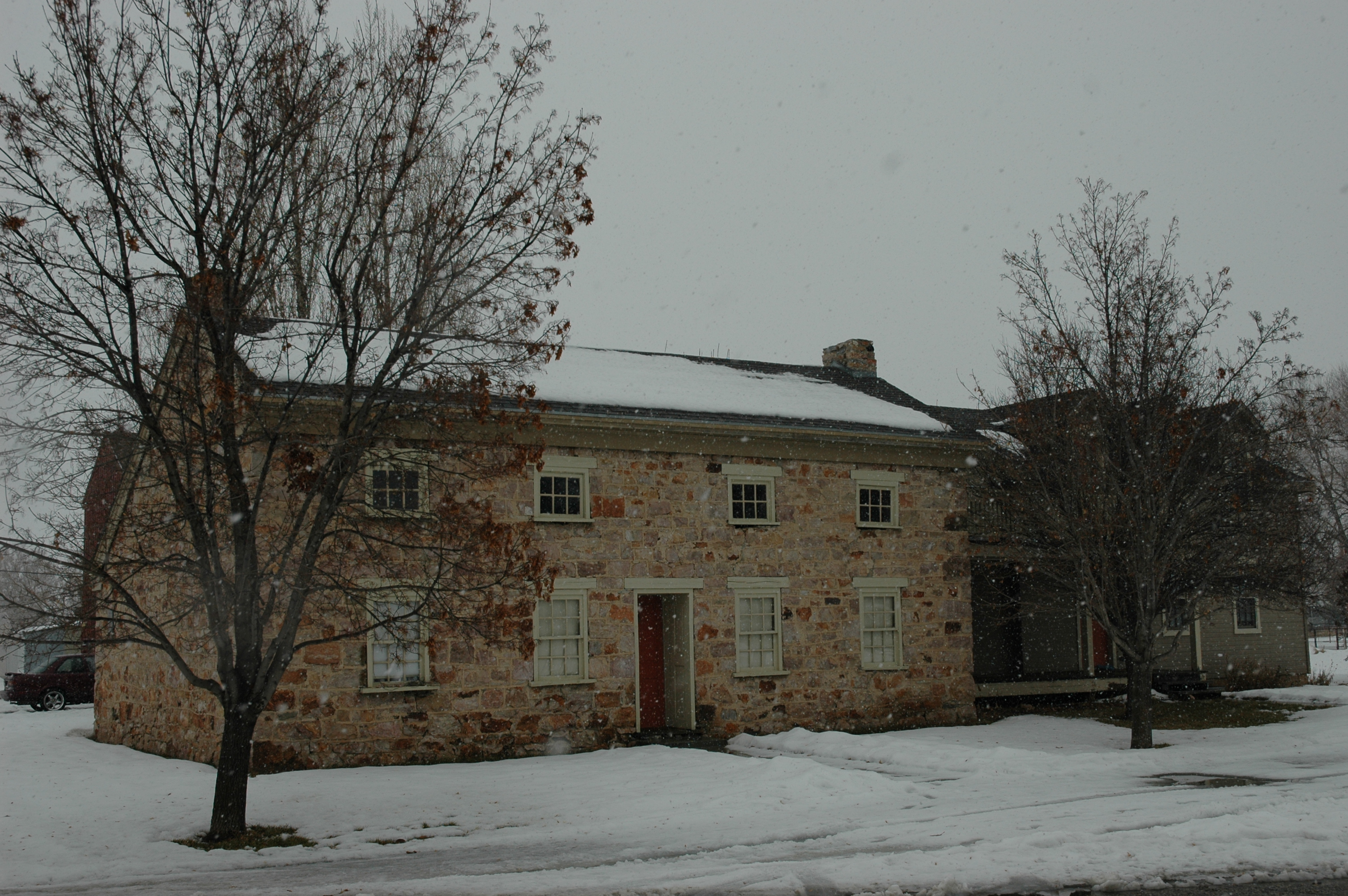 The William D. Skeen House, a historic home in Plain City, Utah, United States.